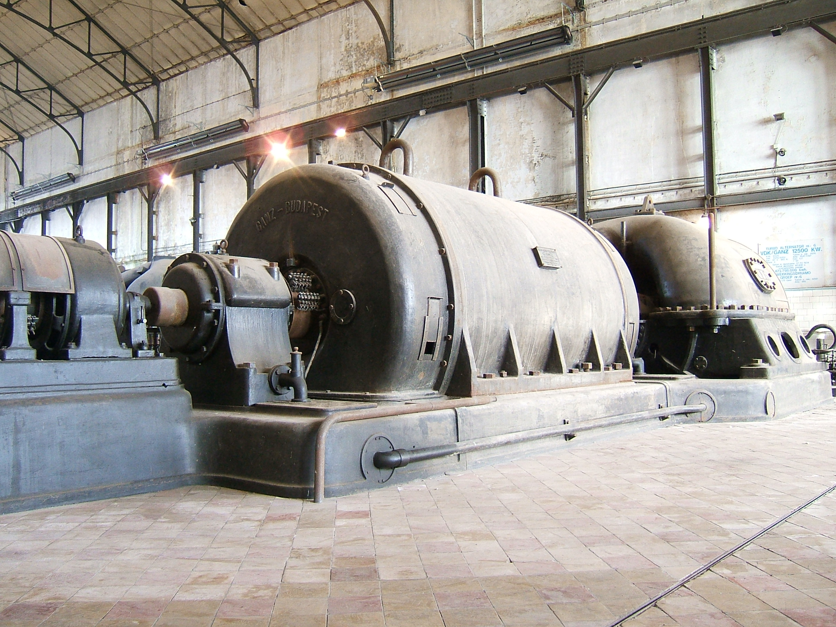 After its closure, Zwevegem Electric Power Plant became a museum for the electricity company. New management decided however to close the museum and to destroy the plant and develop the land. Luckily, it has now been saved and restoration is under progress